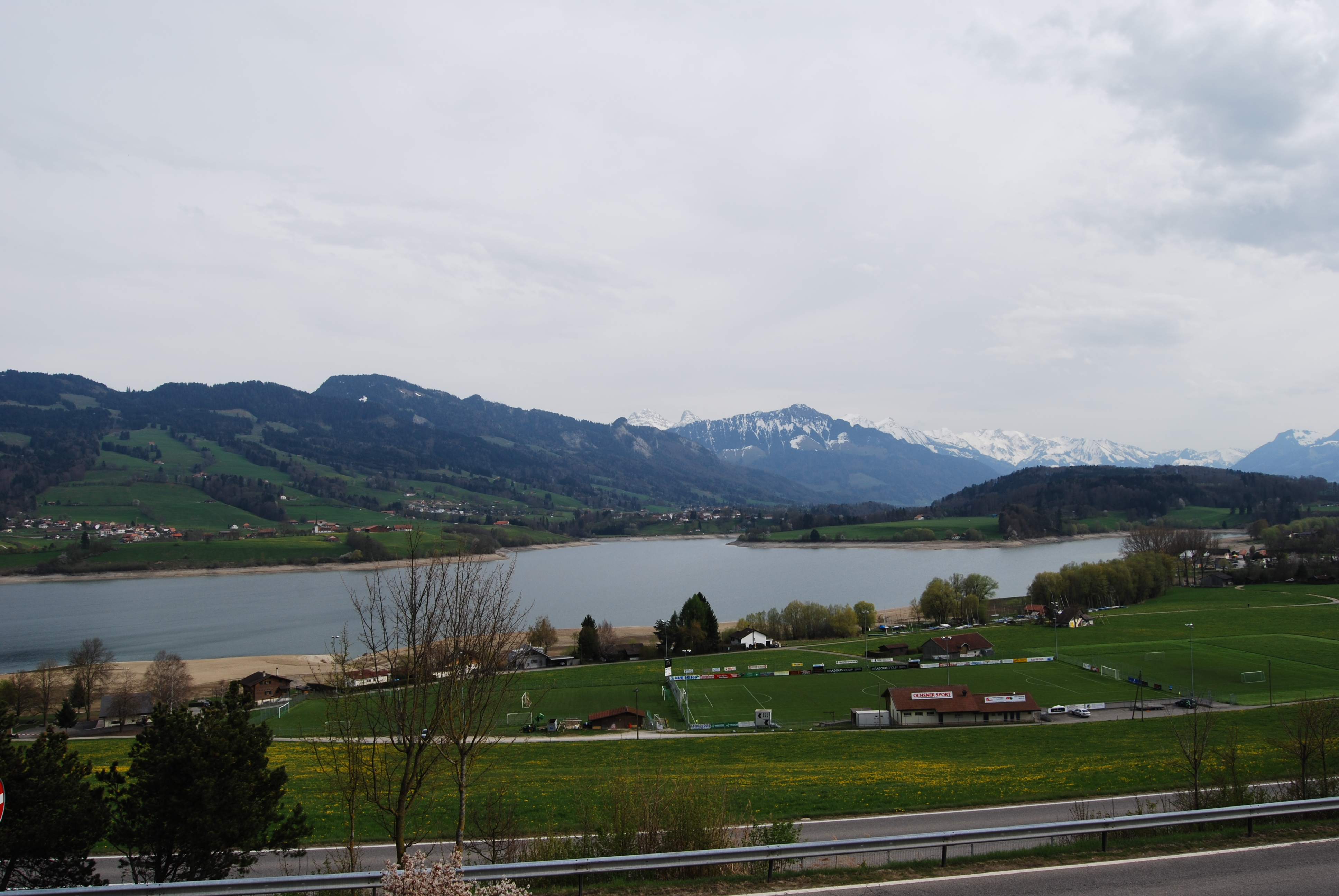 Hauteville, Corbières and Lake of Gruère seen from the rest area La Gruyère, canton of Fribourg, Switzerland